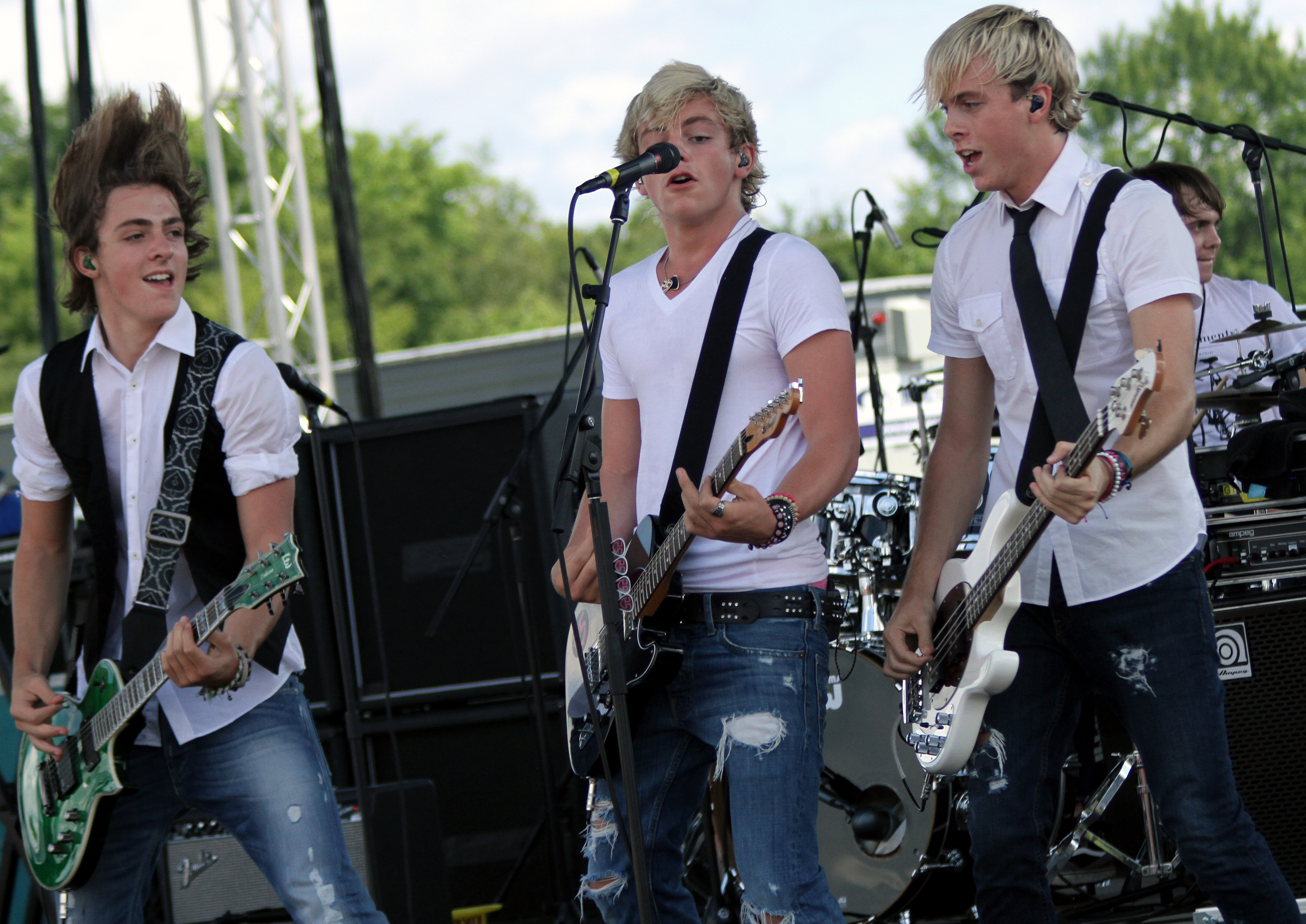 Pop/Rock band R5 (featuring Ross Lynch of "Austin & Ally"&"Teen Beach Movie" and Riker Lynch of "Glee") performing their first east coast concert in Whitehouse Station, N.J. on July 29, 2012.